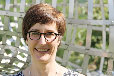 Mathematician Christine Bachoc at the Mathematical Research Institute of Oberwolfach for the seminar Recent Methods in Sphere Packing and Optimization, 2014